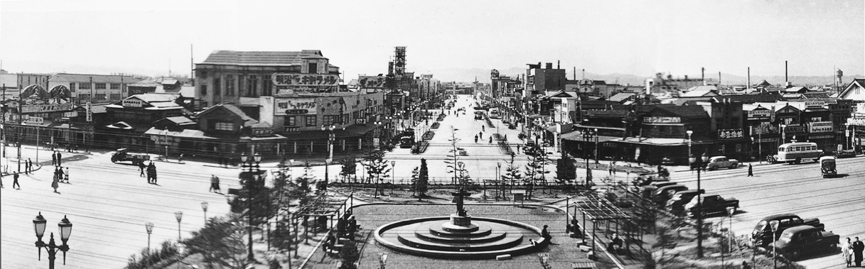 View of the Nagaoka Ōte-dōri from Nagaoka Station in 1955